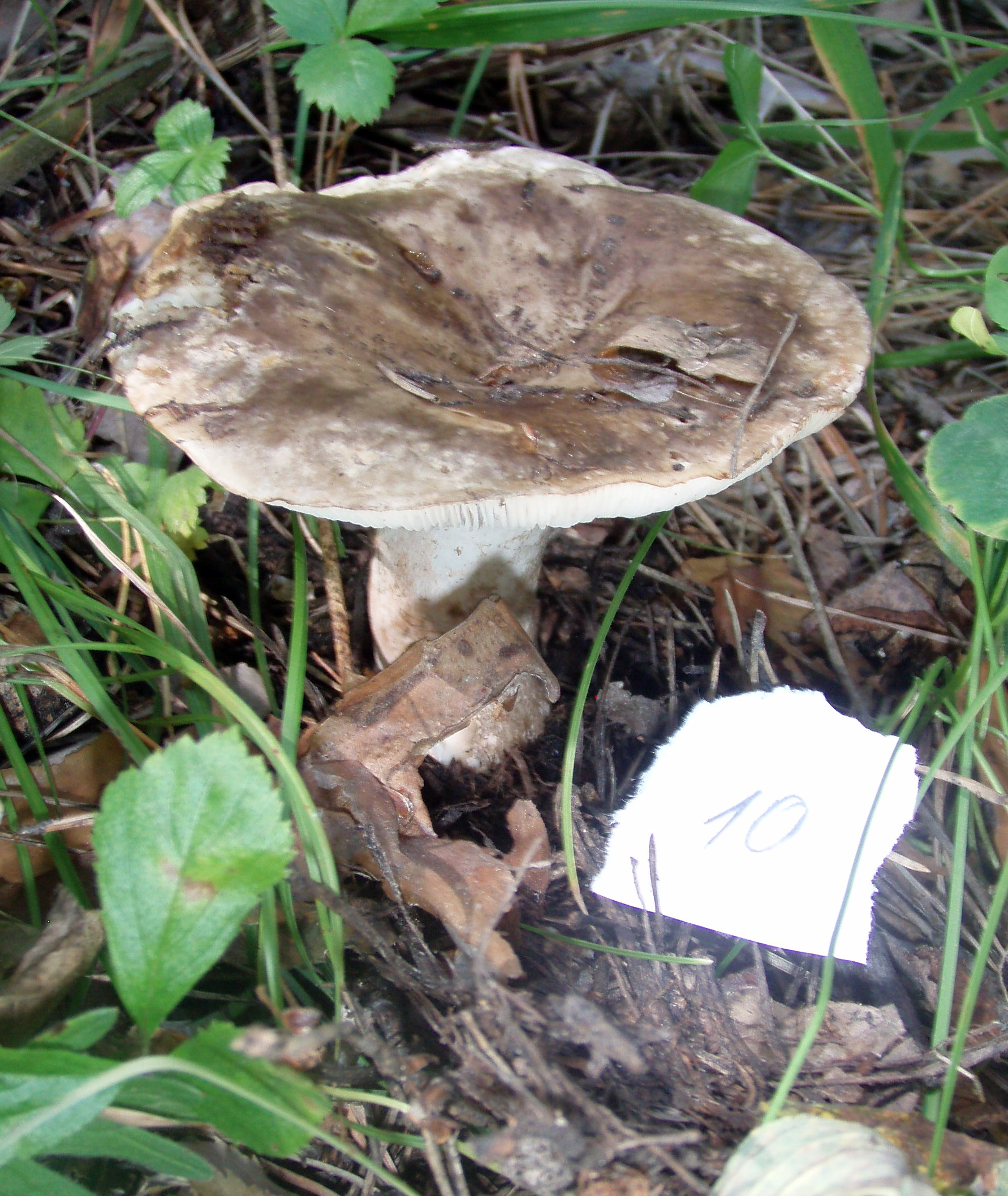 The mushroom Russula acrifolia Romagn. Specimen photographed in Atamanovo, Krasnoyarsk Krai, Russia. "Notes: in herbaceous pine forest (with Larix) under Pinus sylvestris; cap 10 cm; stem 6 × 2.5 cm; taste acrid; smell nonspecific."